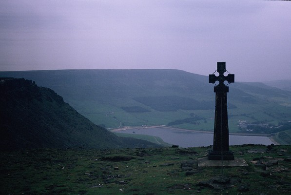 Ashway Cross Commemorates James Platt, MP for Oldham, who died in a shooting accident at this location.